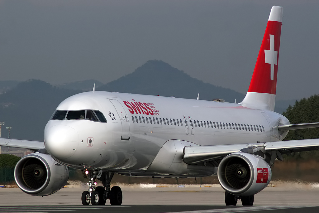 Airbus A320-214 Swiss HB-IJL at Barcelona Airport